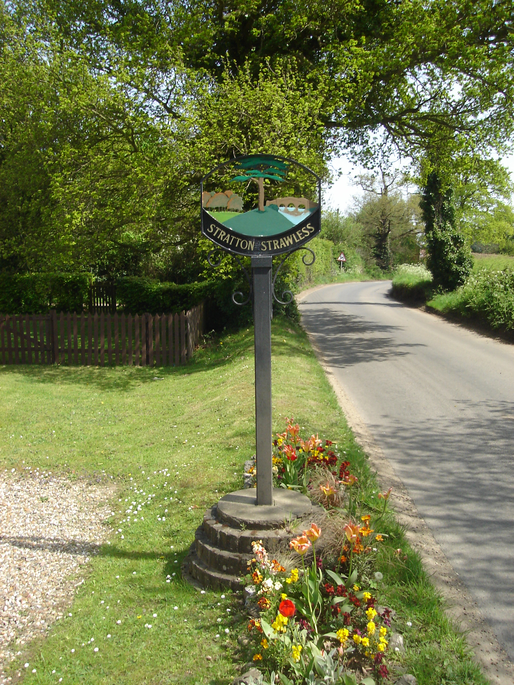 Picture of Stratton Strawless, Norfolk, village sign